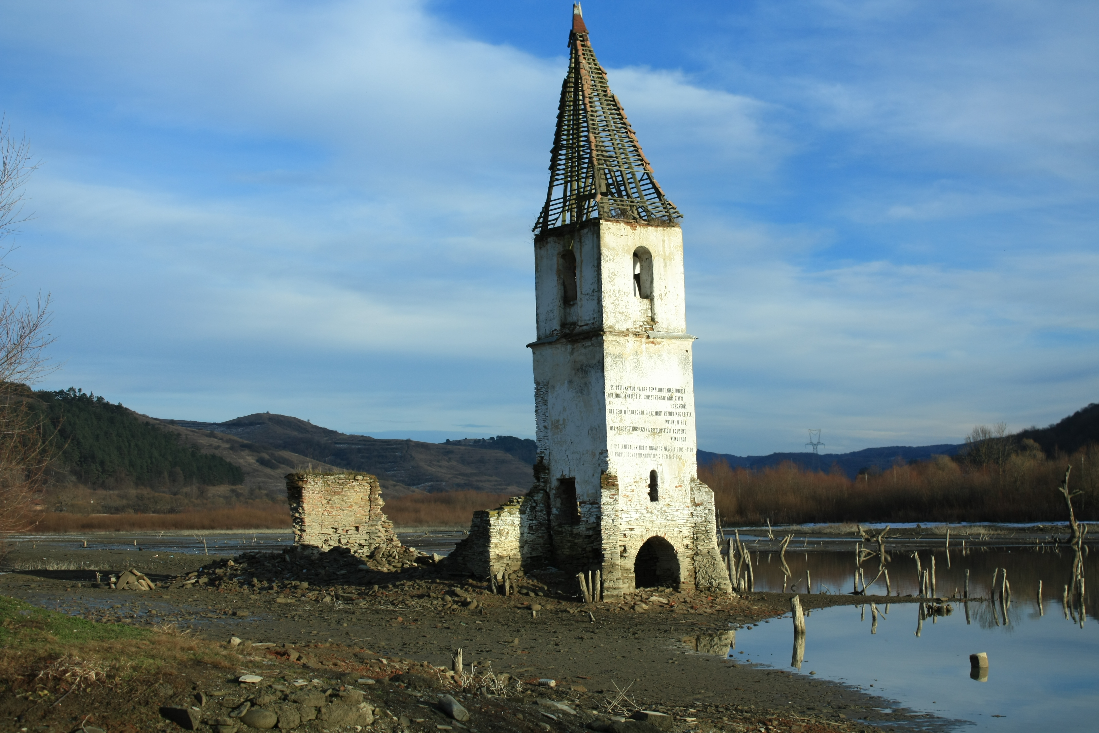 The destroyd catholic church of the flooded Bezidu Nou, Transylvania, Romania.